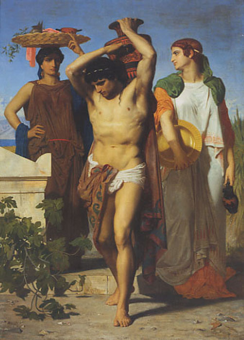 Canephores